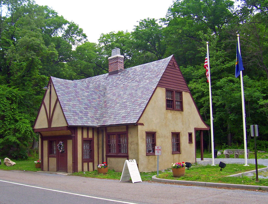 Photographed by Daniel Case 2007-06-09